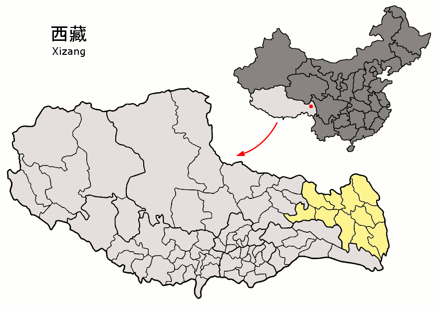 Location of Qamdo Prefecture (yellow) within Tibet (Xizang) autonomous region of China